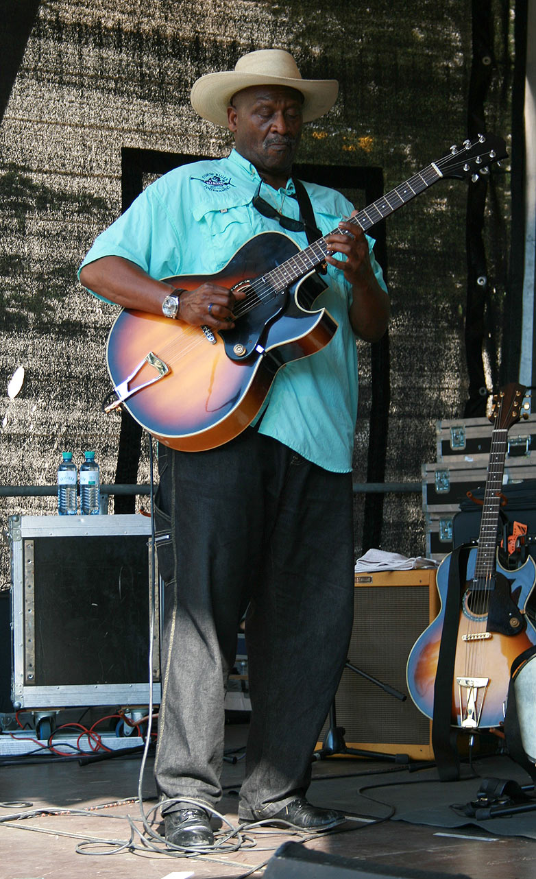 Blues musician Taj Mahal at the Museumsquartier in Vienna (Jazz-Fest Wien)